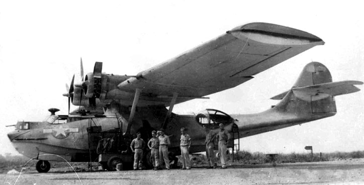 A US Army Air Corps OA-10 Catalina.